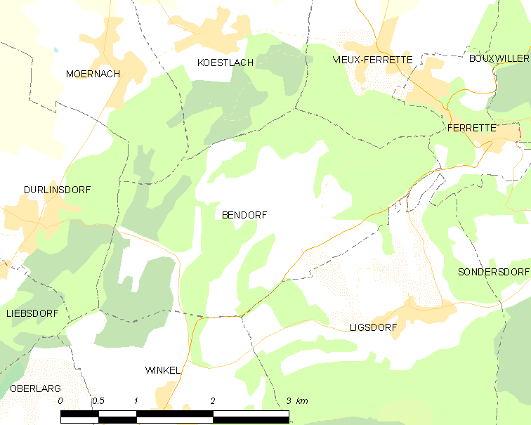 Map of French municipality